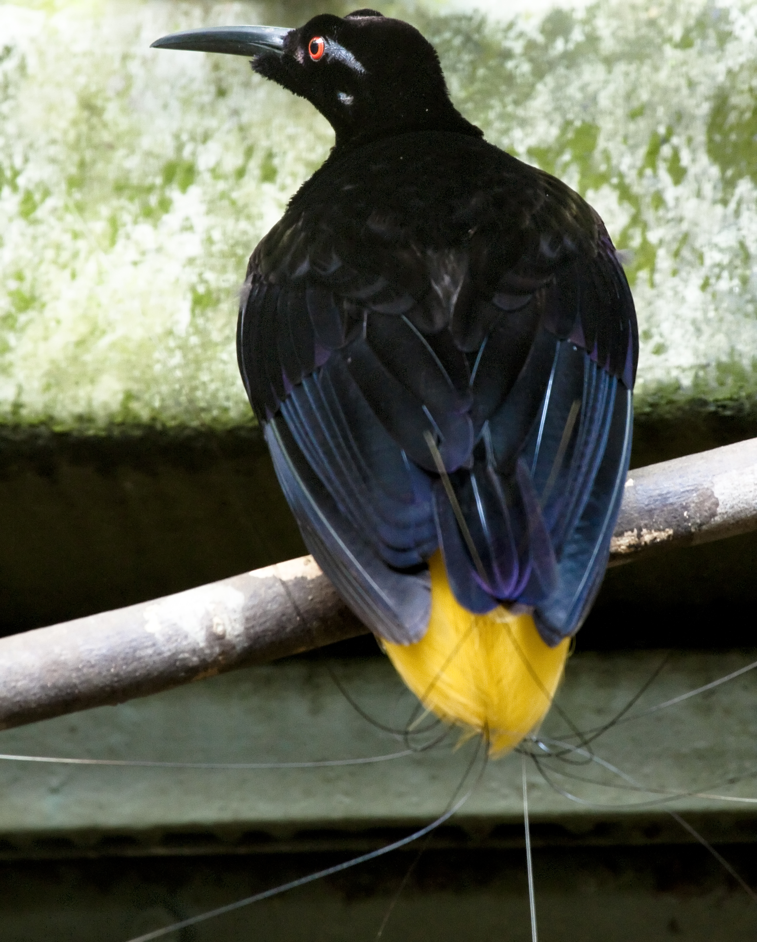 A male Twelve-wired Bird of Paradise at Jurong Bird Park, Singapore.